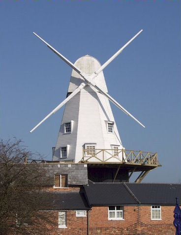 Photograph of Ryw mill